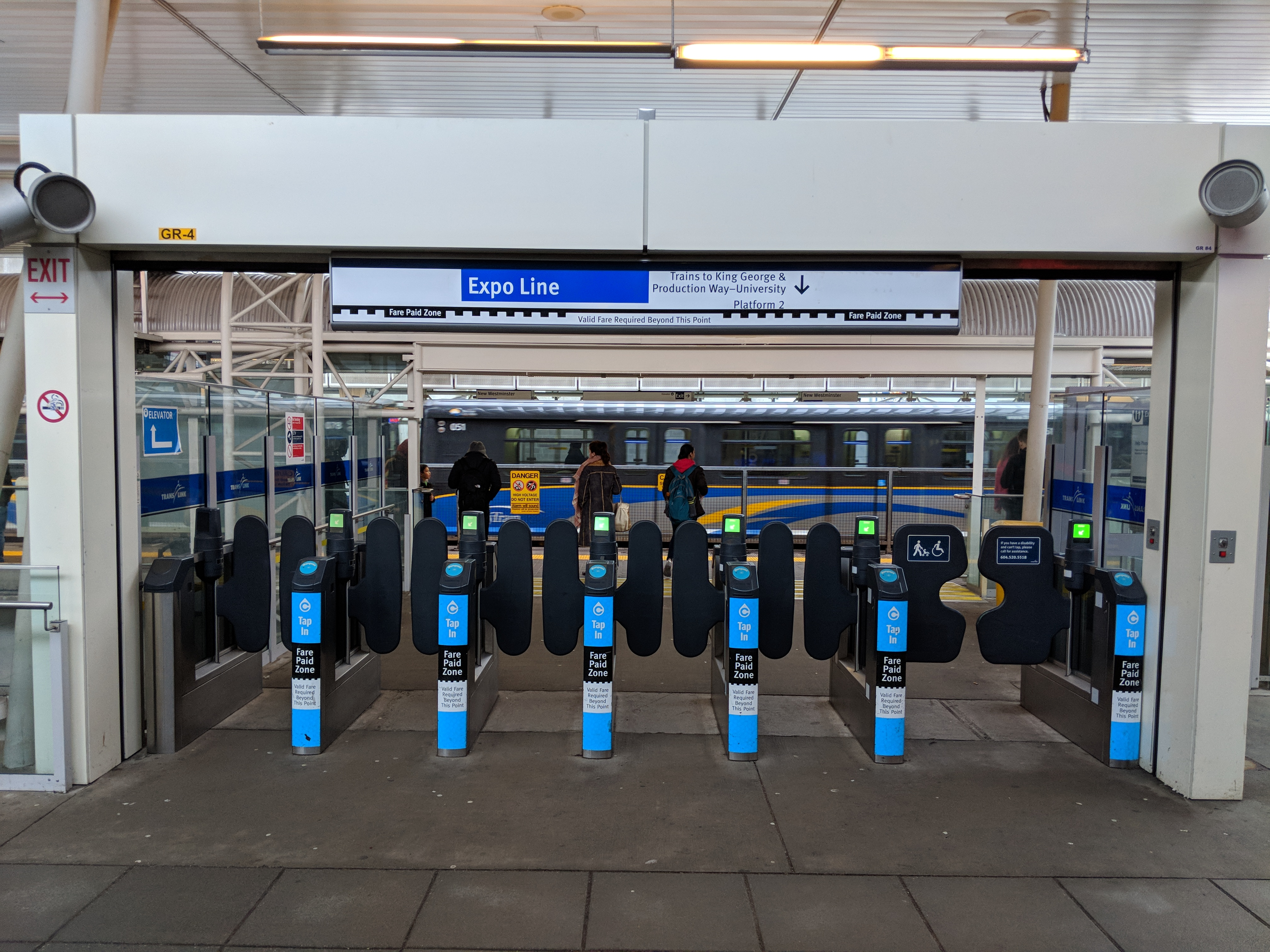 Platform level fare gates at New Westminster station in New Westminster, British Columbia.